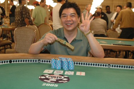 David Chiu in 2005 World Series of Poker after his 4th WSOP victory.